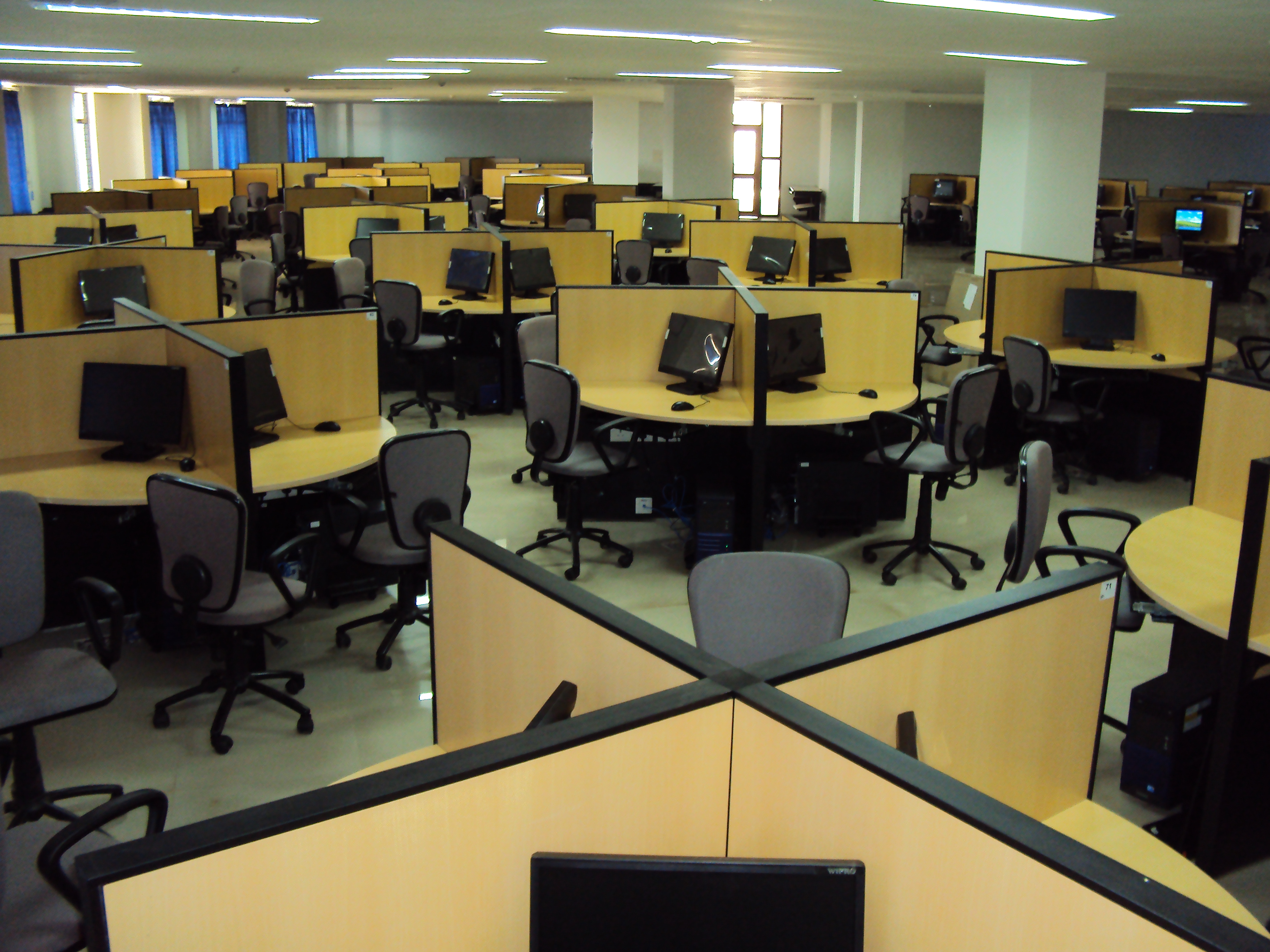 Hidayatullah National Law University IT LAB.